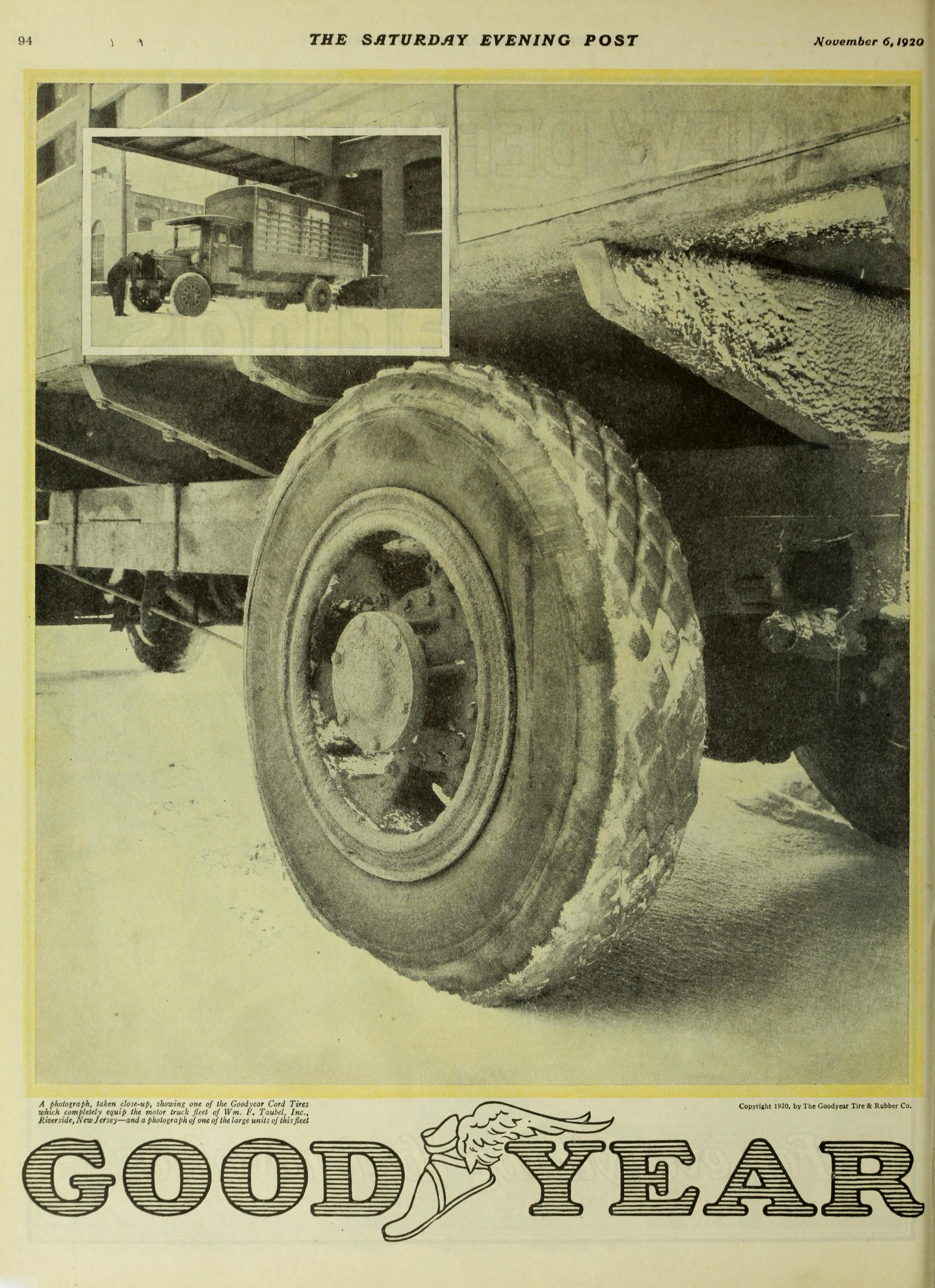 Title: The Saturday evening post Year: 1839 (1830s) Authors: Subjects: Publisher: Philadelphia : G. Graham Text Appearing Before Image: 94 THE SATURDAY EVENING POST November 6,1920 Text Appearing After Image: THE SATURDAY EVENING POST 95 Straight Through January -on Pneumatics We use Goodyear Cord Tires of from six- to ten-inch diameters. Our fleet nowhauls continuously despite winter weather such as previously delayed and tied upour deliveries. The trucks now cover much more ground, running betweenRiverside, Trenton and Philadelphia — haul more tonnage — operate at less costfor fuel and repairs. Goodyear Cord Tire mileages range up to 30,000.—Harry McCoy, for Wm. F. Taubel, Inc., Hosiery Mills, Riverside, New Jersey UPON the transportation map has appeared a vast net-work of truck routes over which, as is indicated instatements like this, units and fleets on Goodyear CordTires haul continuously. Far and wide they travel even when the drifting snowsand slippery grades of winter have retarded and stalledother carriers lacking the traction supplied by thesepneumatics. With regularity and promptness, the able Goodyear CordTires hurry heavy cargoes through melting sleet and alongice-pave